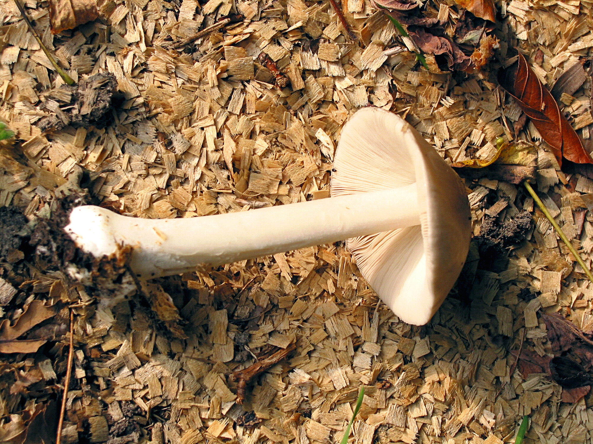 stubble rosegill